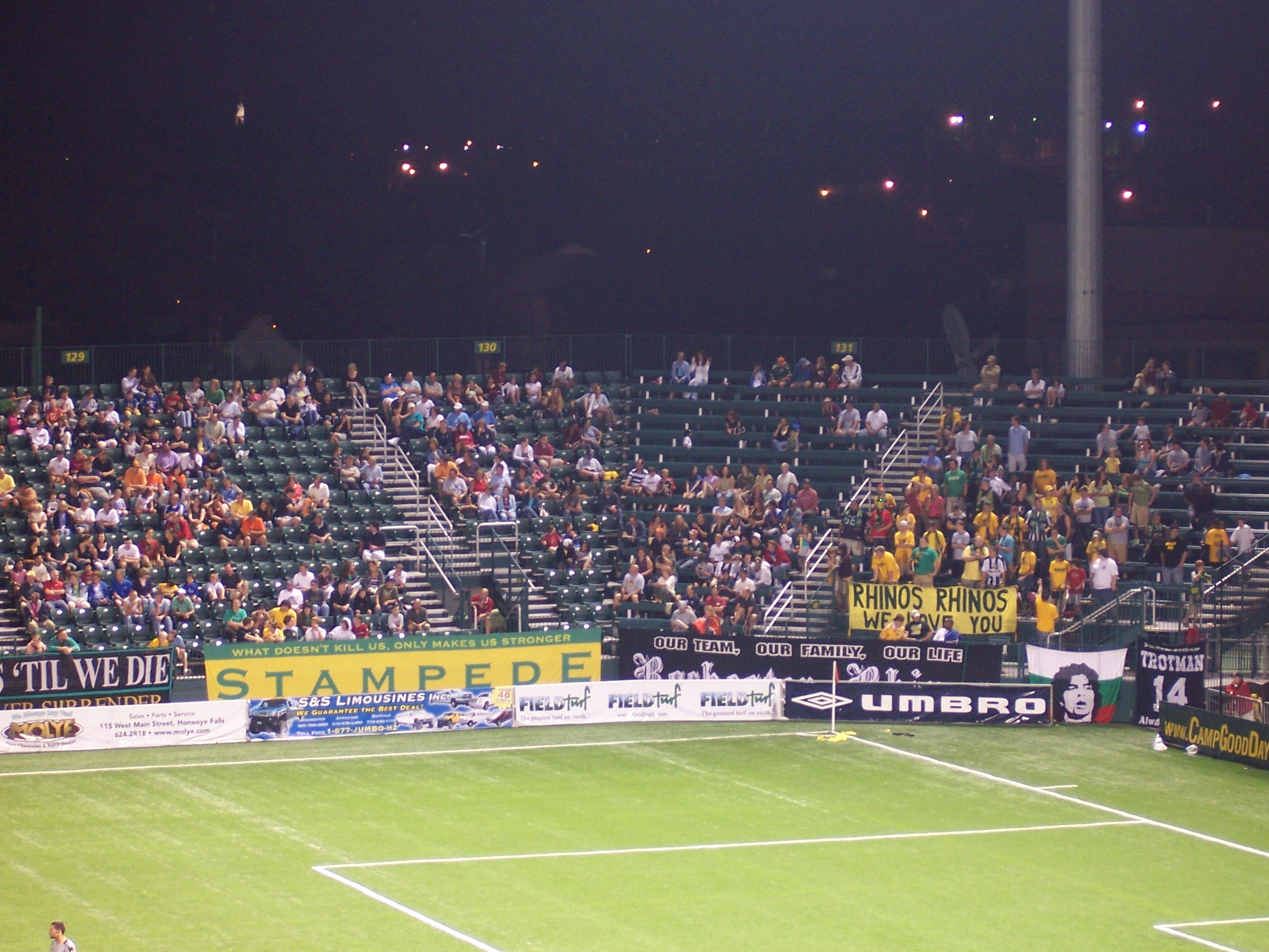 An image of the stands at PAETEC Park, a soccer-specific stadium in Rochester, New York. This section of the stands features the Rochester Stampede, a group of enthusiastic fans of the Rochester Rhinos soccer team. This image was taken during a game between the Rhinos and the Carolina Railhawks.